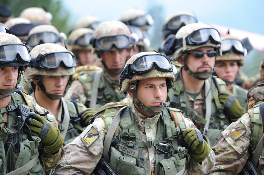 Soldiers of the Alpini Battalion "Feltre", 7th Alpini Regiment of the Italian Army during the Falzarego 2011 exercise.